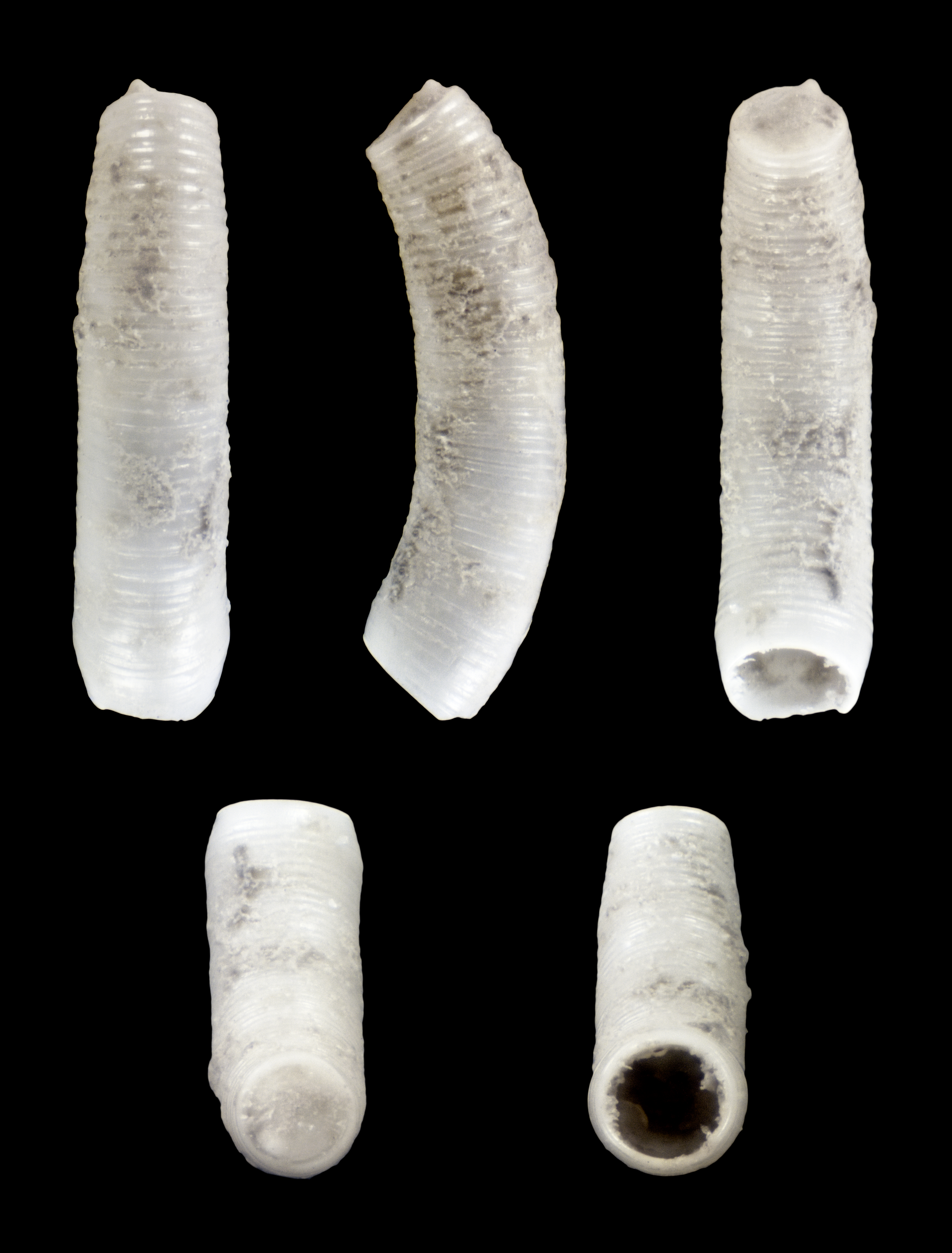 Caecum regulare Carpenter, 1858; Length 0.22 cm; Tertiary, Pliocene, LaBelle, Florida, USA; Shell of own collection, therefore not geocoded.